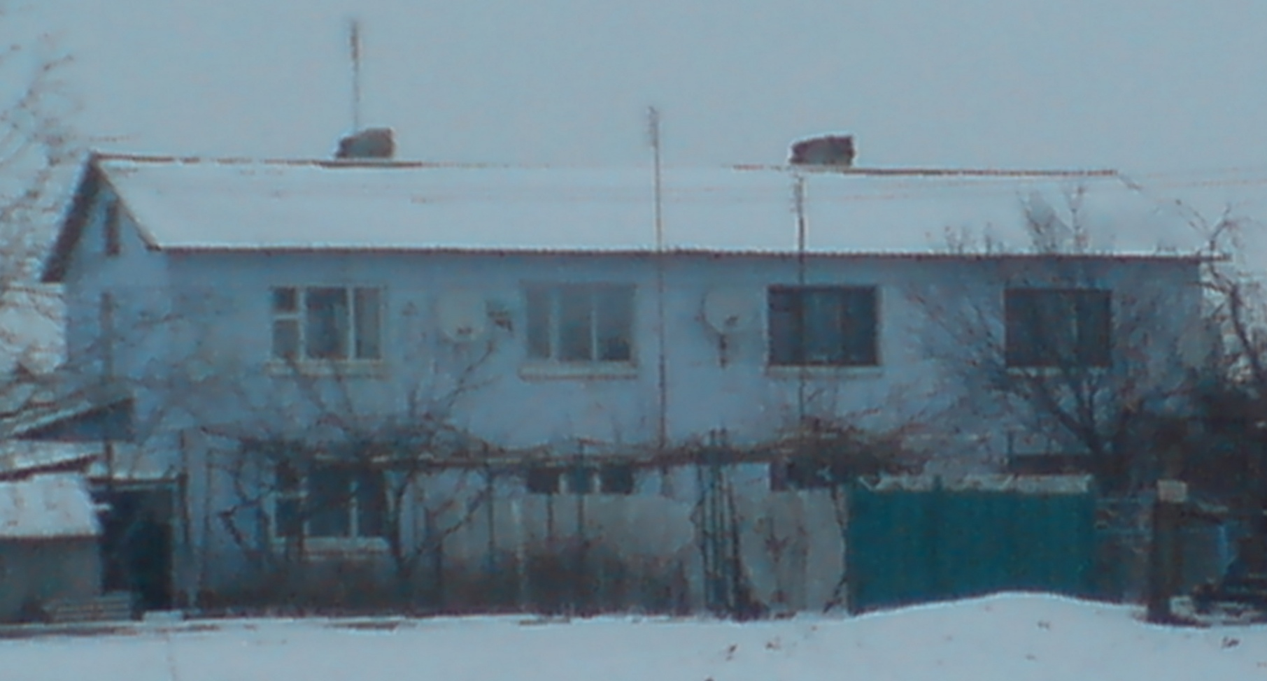 Pryvokzalna, Zatyshshia